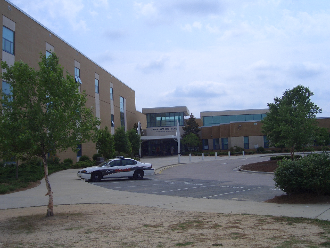 Front view of the high school. The school's resident Cary Police presence is visible in the foreground. At the right is the bus staging area.